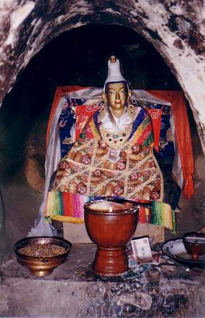 I took this photo myself in 1993 and I am happy for it to be in the Public Domain.